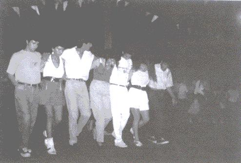 People dancing "Zemba" or "Charanda", in Corrientes (Argentina).